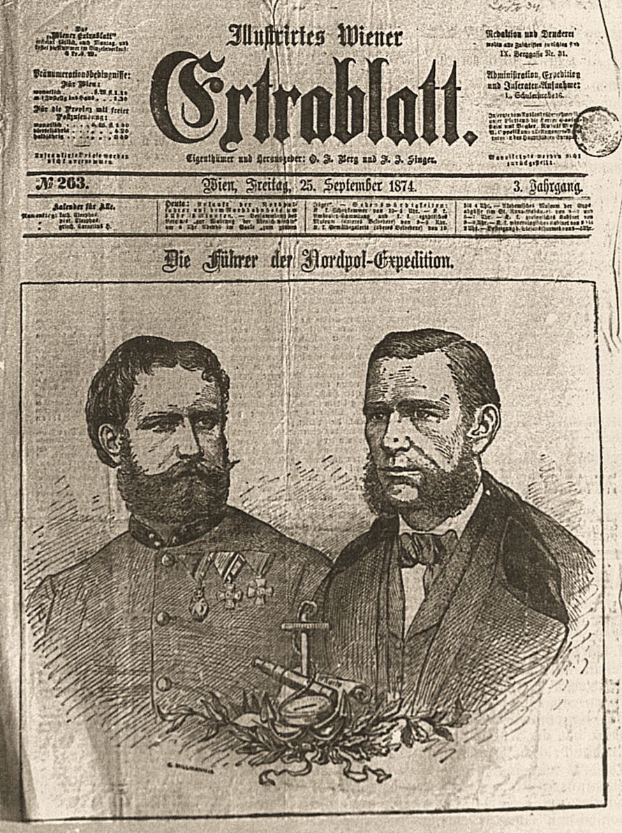 Cover page "Illustriertes Wiener Extrablatt" September 25, 1874, Julius von Payer left and Karl Weyprecht (right)